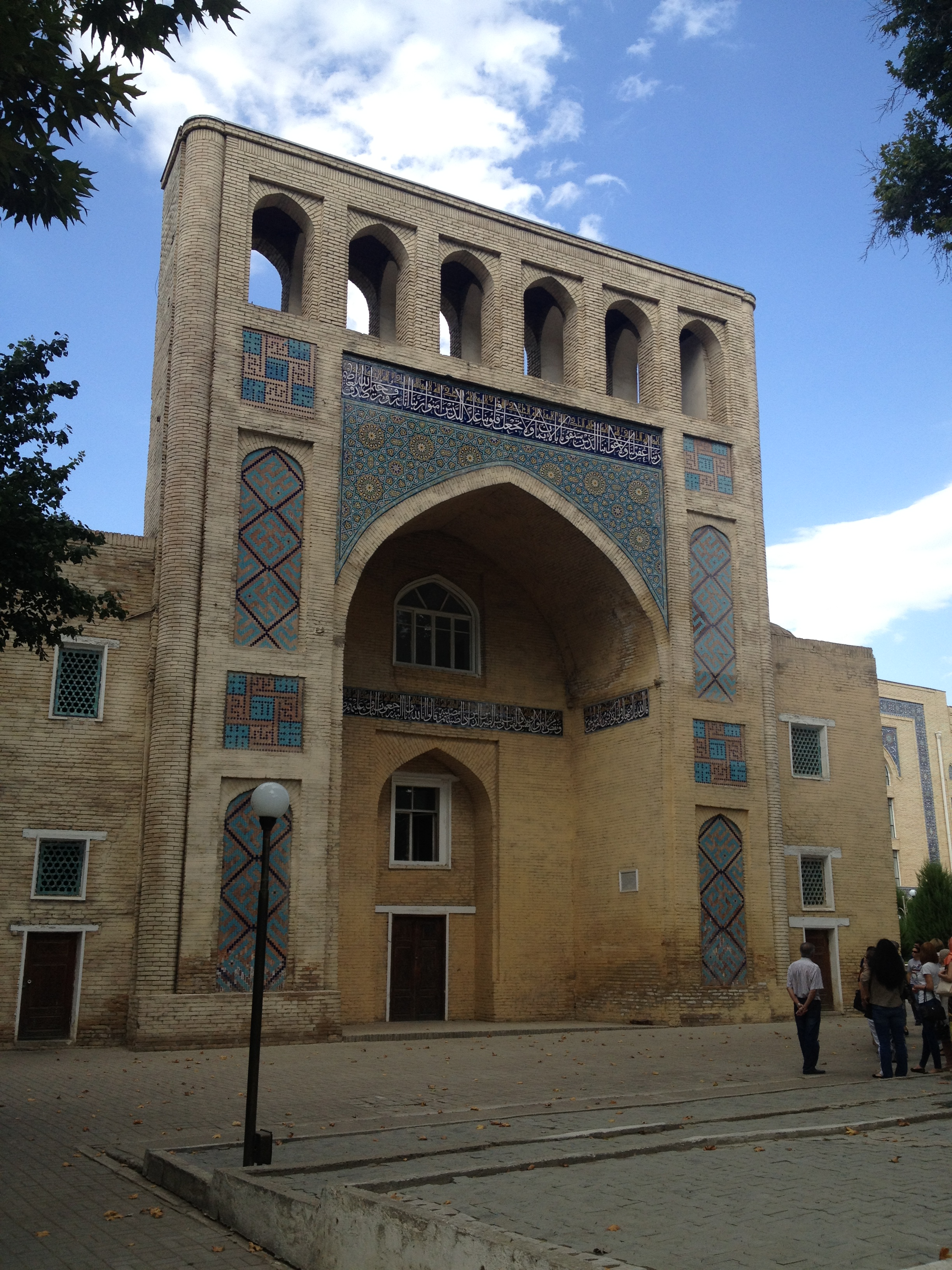 Yunuskham mausoleum (portal)